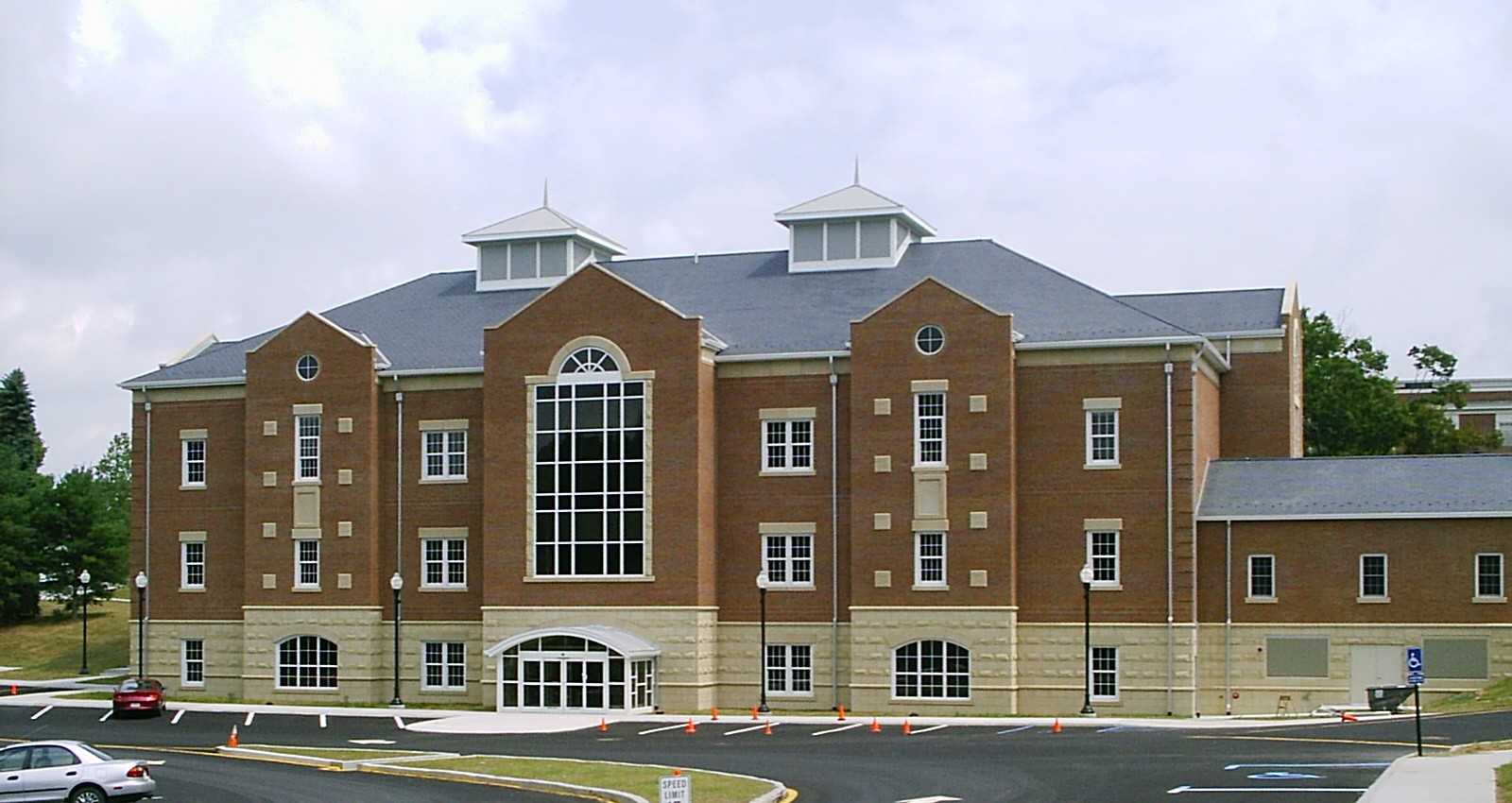 Nick Rayhall Technology Center building just constructed at Concord University - front view